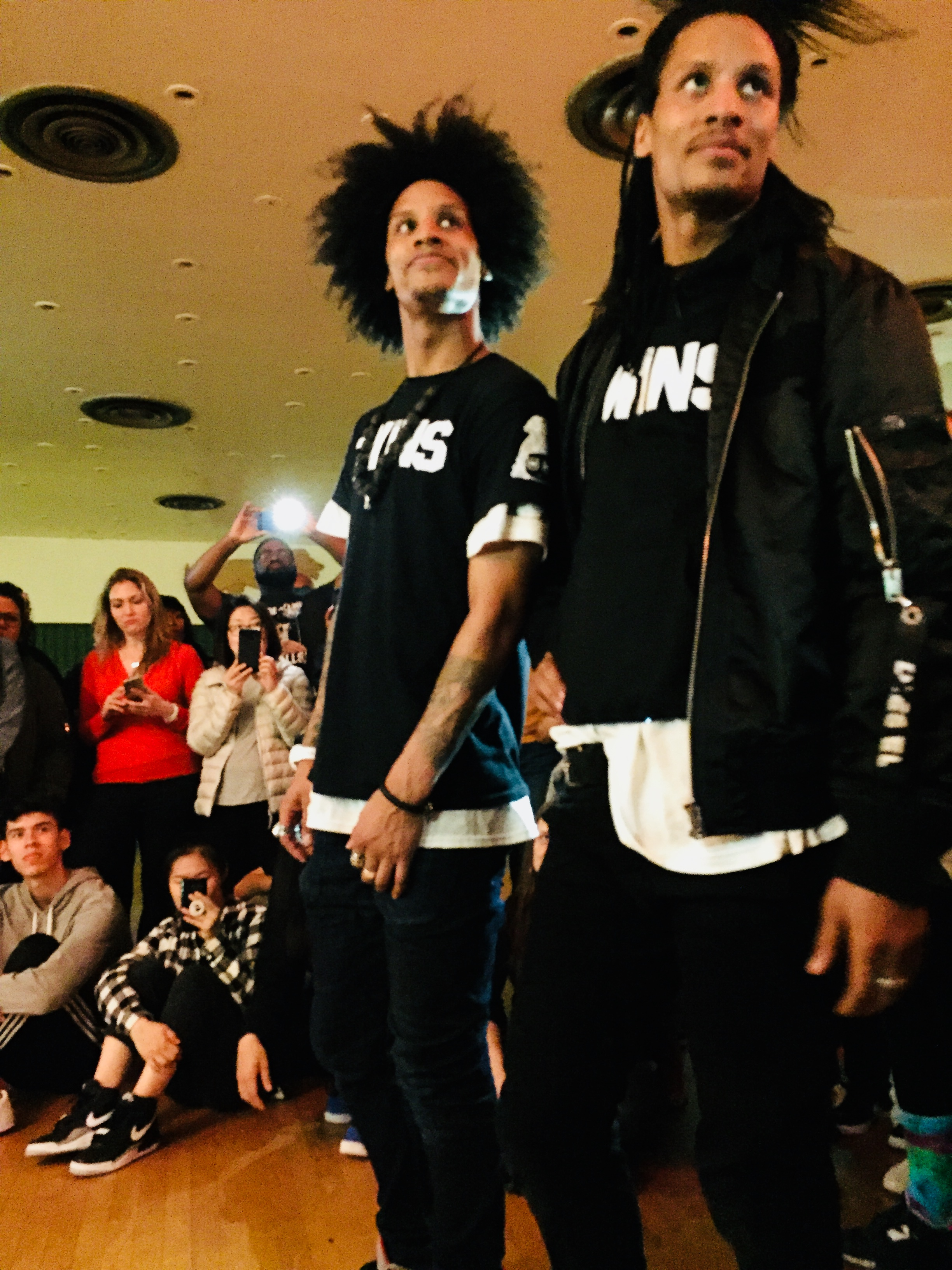 Larry and Laurent Bourgeois (professionally known as Les Twins) at their dance workshop in San Francisco, CA on April 28, 2019.